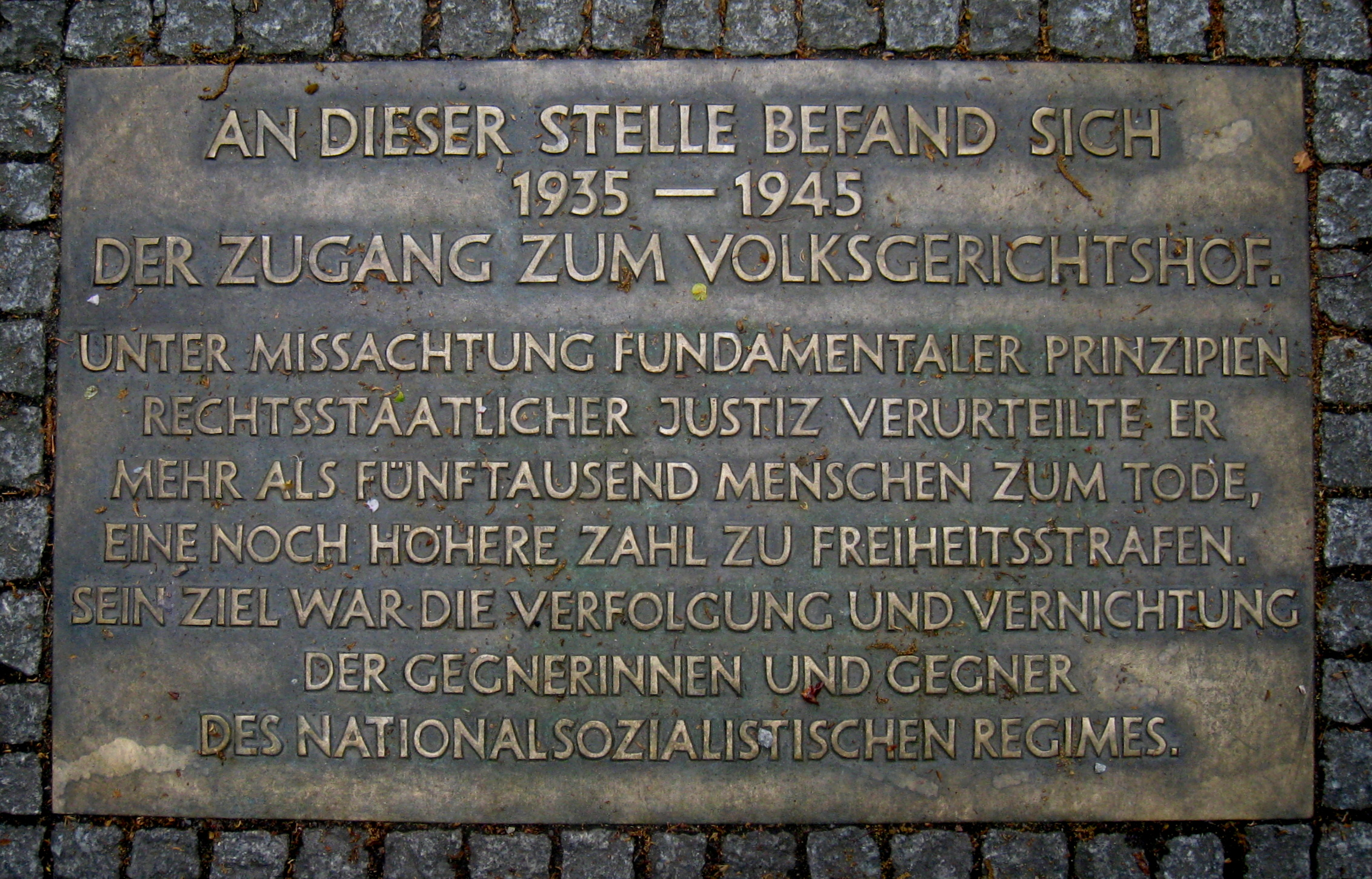 Memorial marking the site of entrance to the Volksgerichtshof (Peoples Court of Justice). The site itself is now occupied by the Sony Center. Translation: This marks the entrance to the Volksgerichtshof (1935-1945). With a total disregard to the fundamental principles of justice the court sentenced more than five thousand people to death and an even greater number to loss of freedom. Its purpose was to pursue and destroy all opponents of the National Socialist Regime.